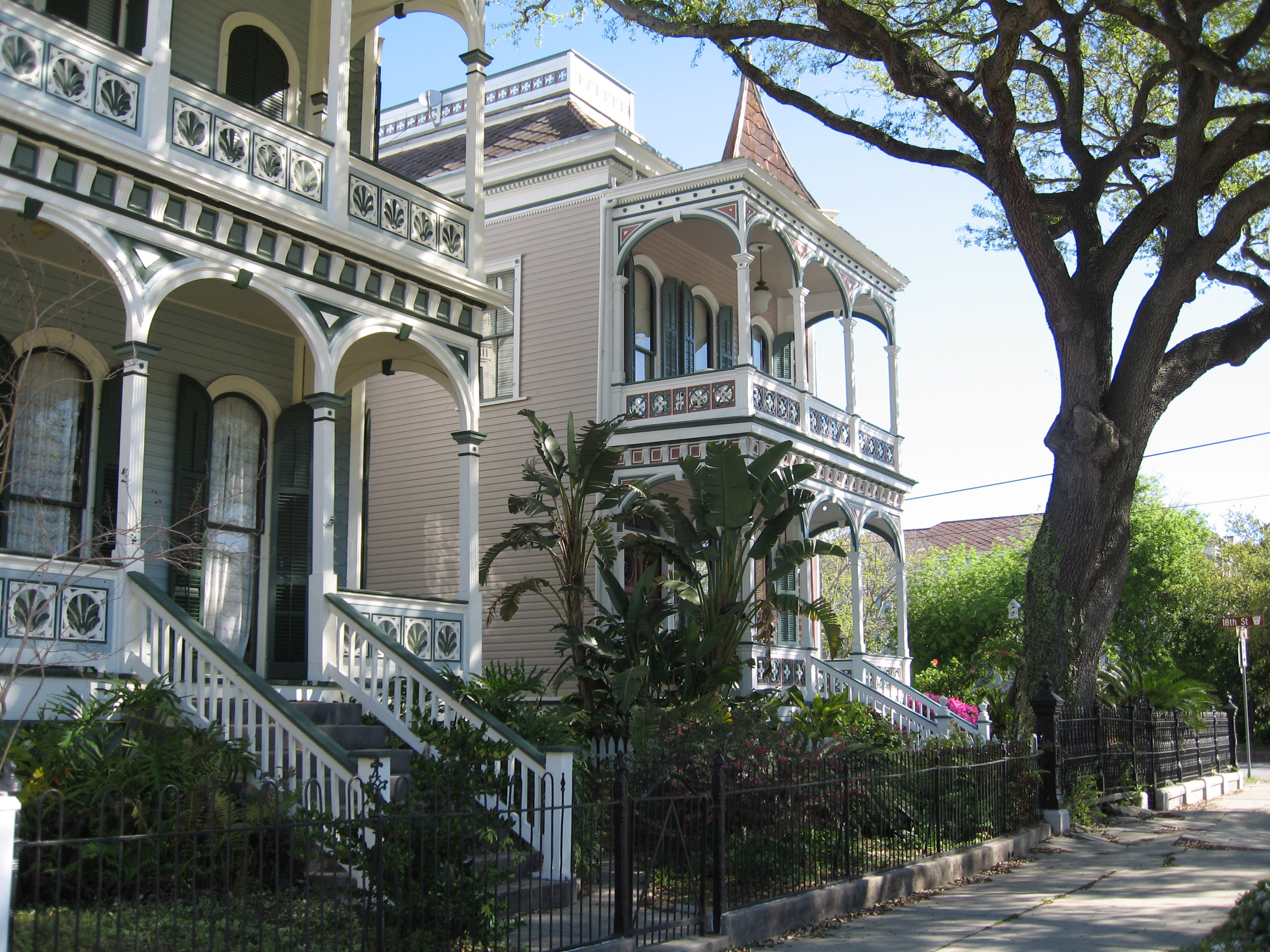 Victorian homes on Post Office Street in Galveston, Texas. Taken on March 14, 2006 by Laura Scudder.